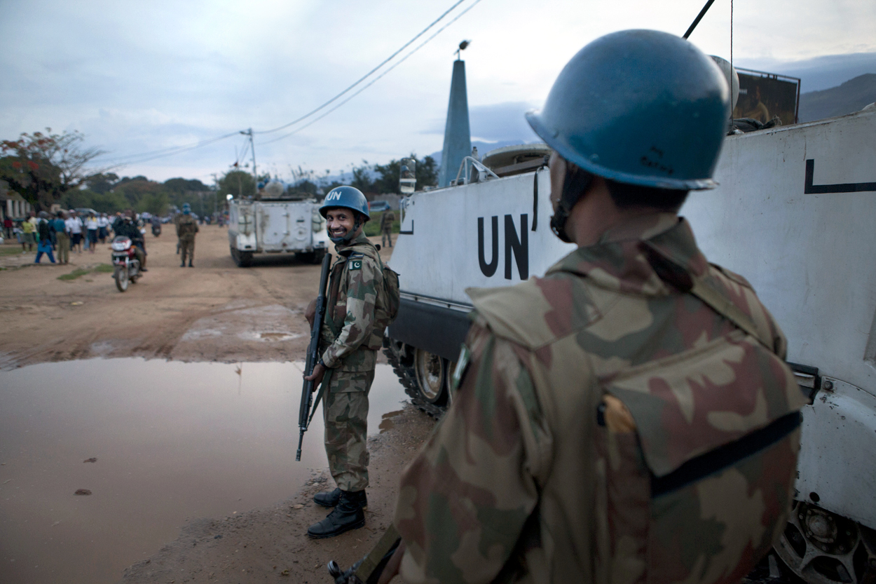 MONUSCO Pakistany Peacekeepers patrolling the streets of Uvira in South Kivu , the 22nd of October 2012. © MONUSCO/Sylvain Liechti